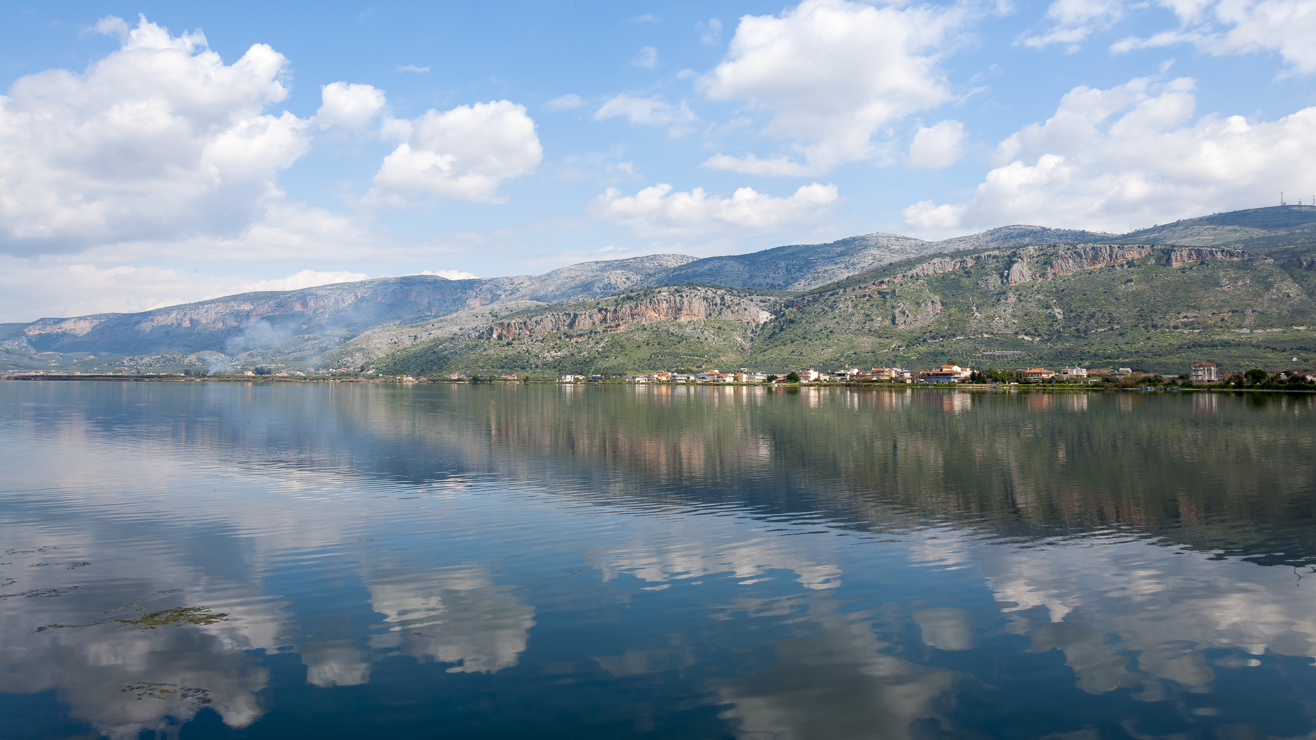 This is a photography of Natura 2000 protected area with ID GR2310015 Λιμνοθάλασσα Αιτωλικού - Aetolikon Lagoon